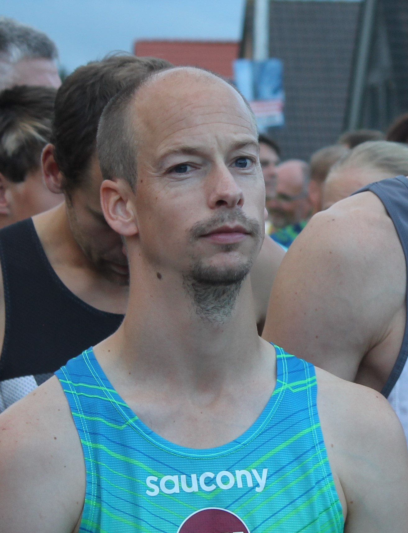 Olfert Molenhuis August 2016